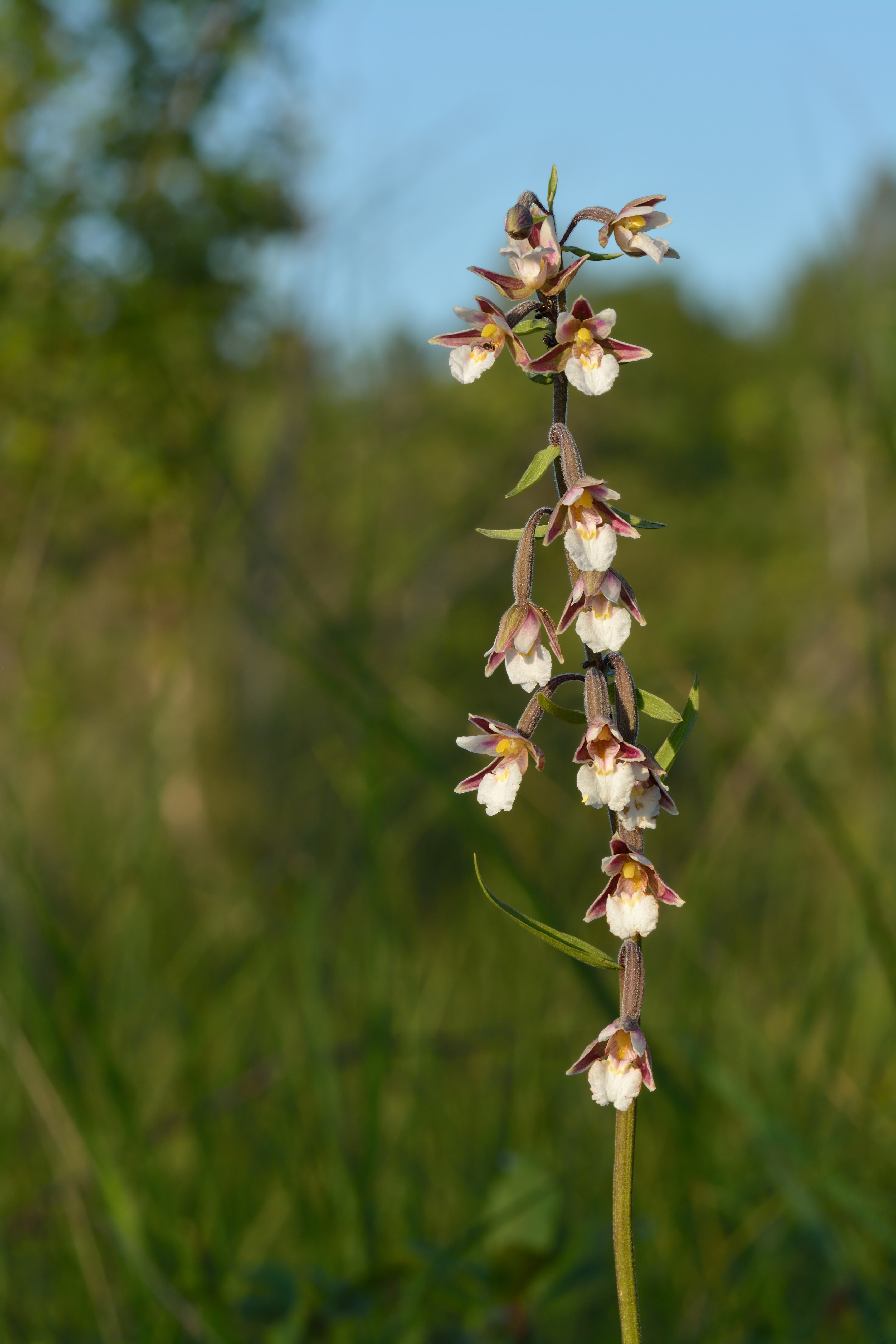 Marsh helleborine (Epipactis palustris). Niitvälja bog, Northwestern Estonia.